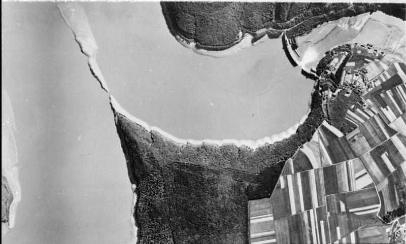 Operation Chastise (the Dambusters' Raid) 16 - 17 May 1943 The Targets: A vertical reconnaissance photo showing the breach in the Eder Dam. The awkward approach to the dam resulted in the failure of the first three attempts to place a bomb accurately enough to destroy it. The fourth aircraft to attack (AJ-N) succeeded, however.